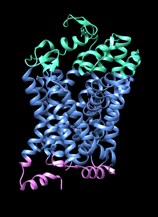 Crystal structure of dopamine transporter protein based on Penmasta, et. al (Nature, 2013).